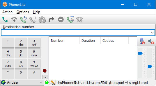 Screenshot of PhonerLite application